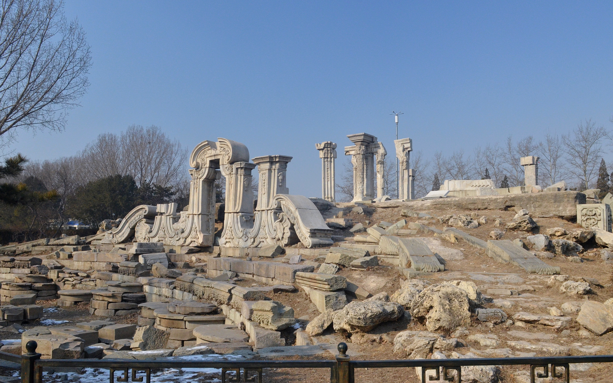 Present-day ruins of Dashuifa and Yuanyingguan